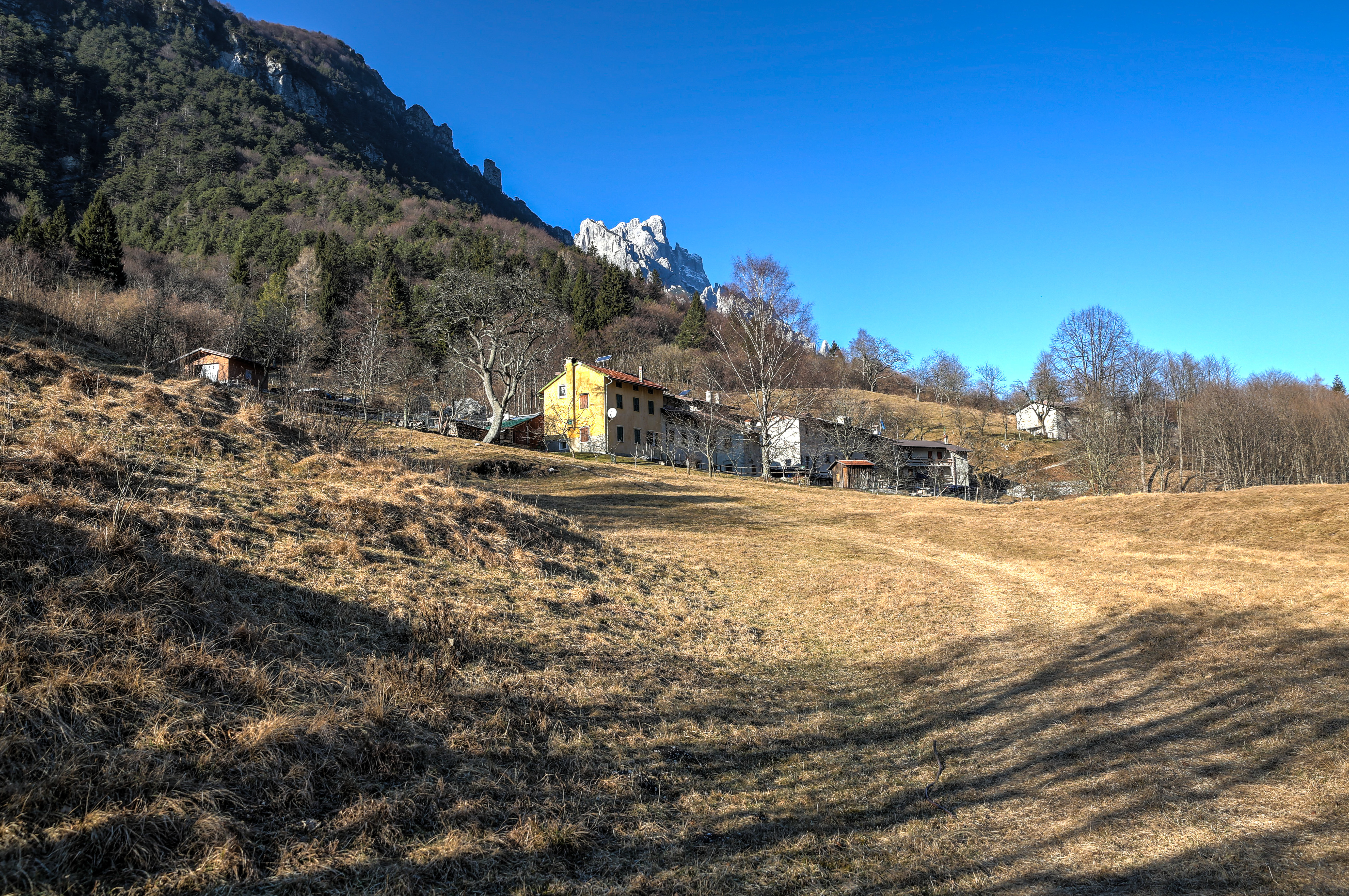 The hamlet Borgo di Mezzo in Monticello on the eastside of Creta Grauzaria (2.065m) in the Val d'Aupa in the Carnic Alps, community Moggio Udinese / Friuli-Venezia Giulia / Italy / EU. Late Afternoon Glow in January. Blue sky and still sun. In the background the Creta Grauzaria.